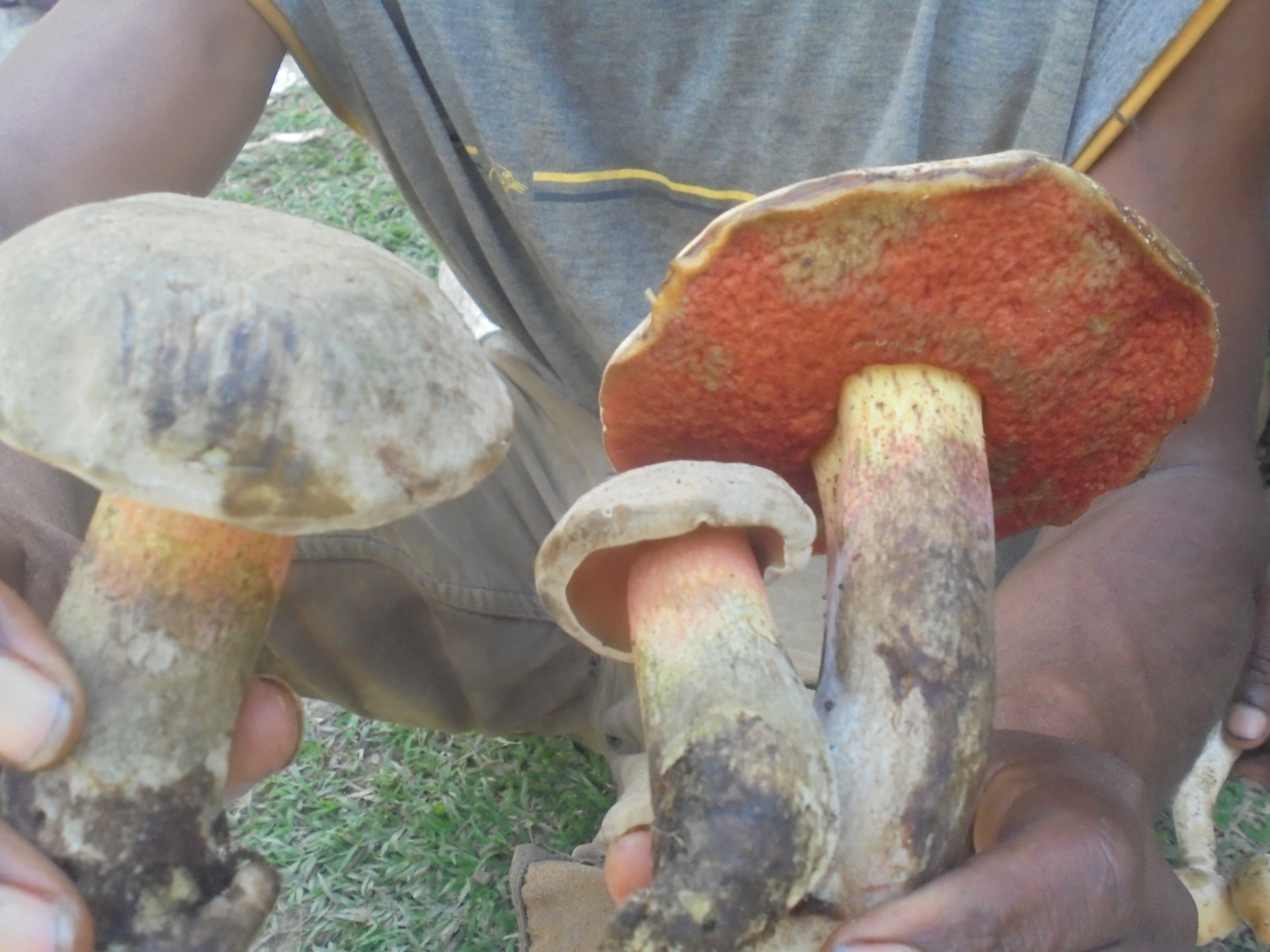 Boletus Manicus Heim from JiWaKa province in the highlands of Papua New Guinea. In Wahgi language called gegwantsyi ngimbl. (ngimbl means pain, describing intense bitterness of this mushroom) Collected Nov. 2017 by J. Offer